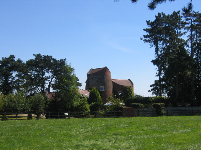 Rowington Mill. Now converted into a house with matching outbuildings and an interesting style of pitched roof.